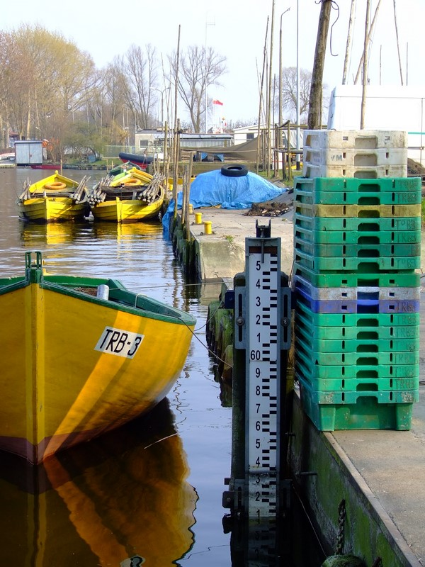 Fish Harbor, Trzebiez, Poland